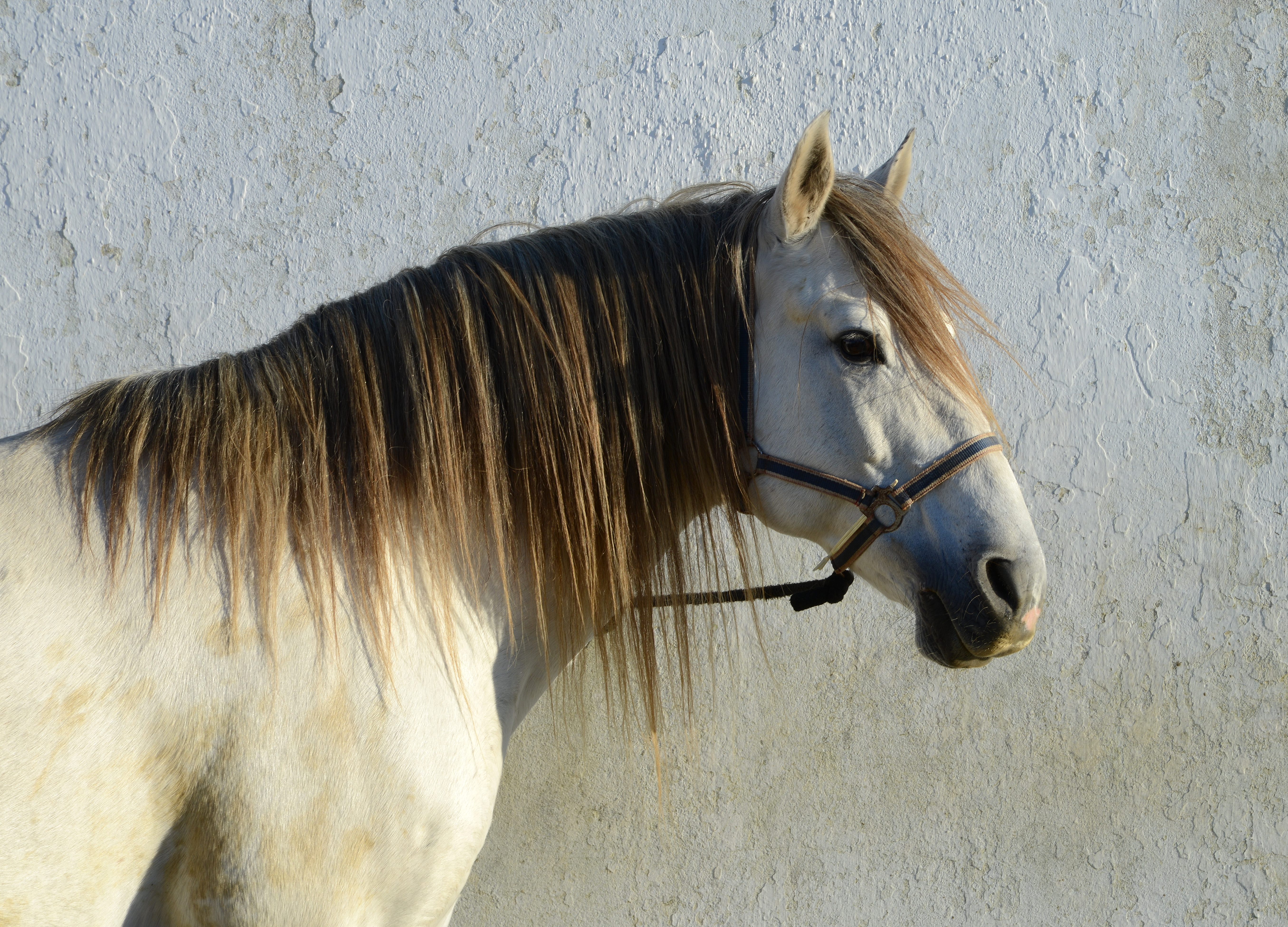 Lusitano horse, Portugal